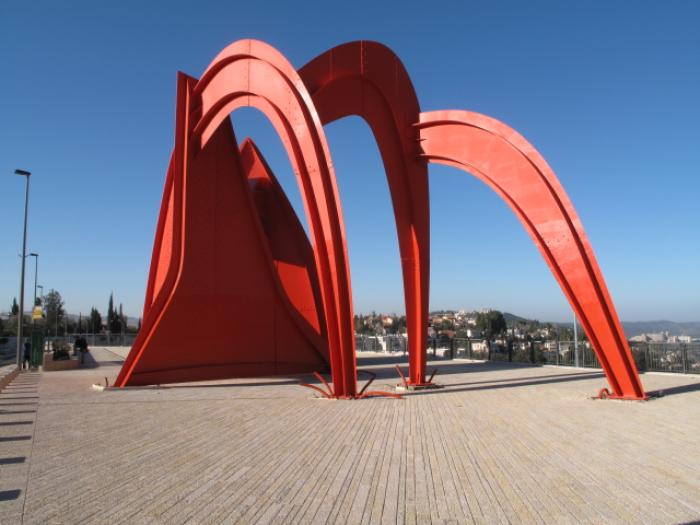 The last statue made by the American artist Alexander Calder. It was placed in 1977 at the Holland Square on Mt. Herzl in western Jerusalem.